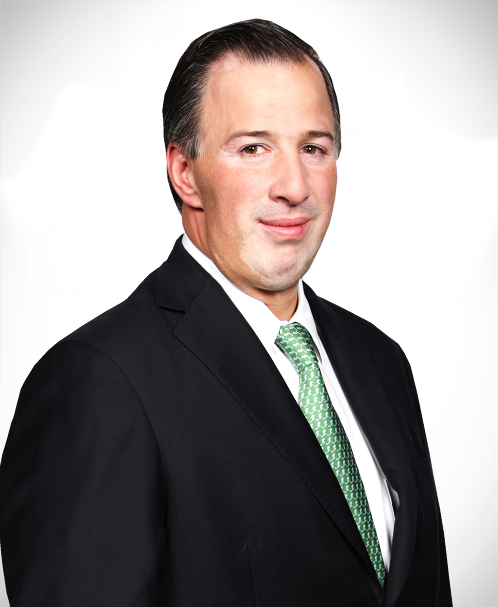 José Antonio Meade Kuribreña. Secretario de Relaciones Exteriores de México. Gobierno del presidente Enrique Peña Nieto